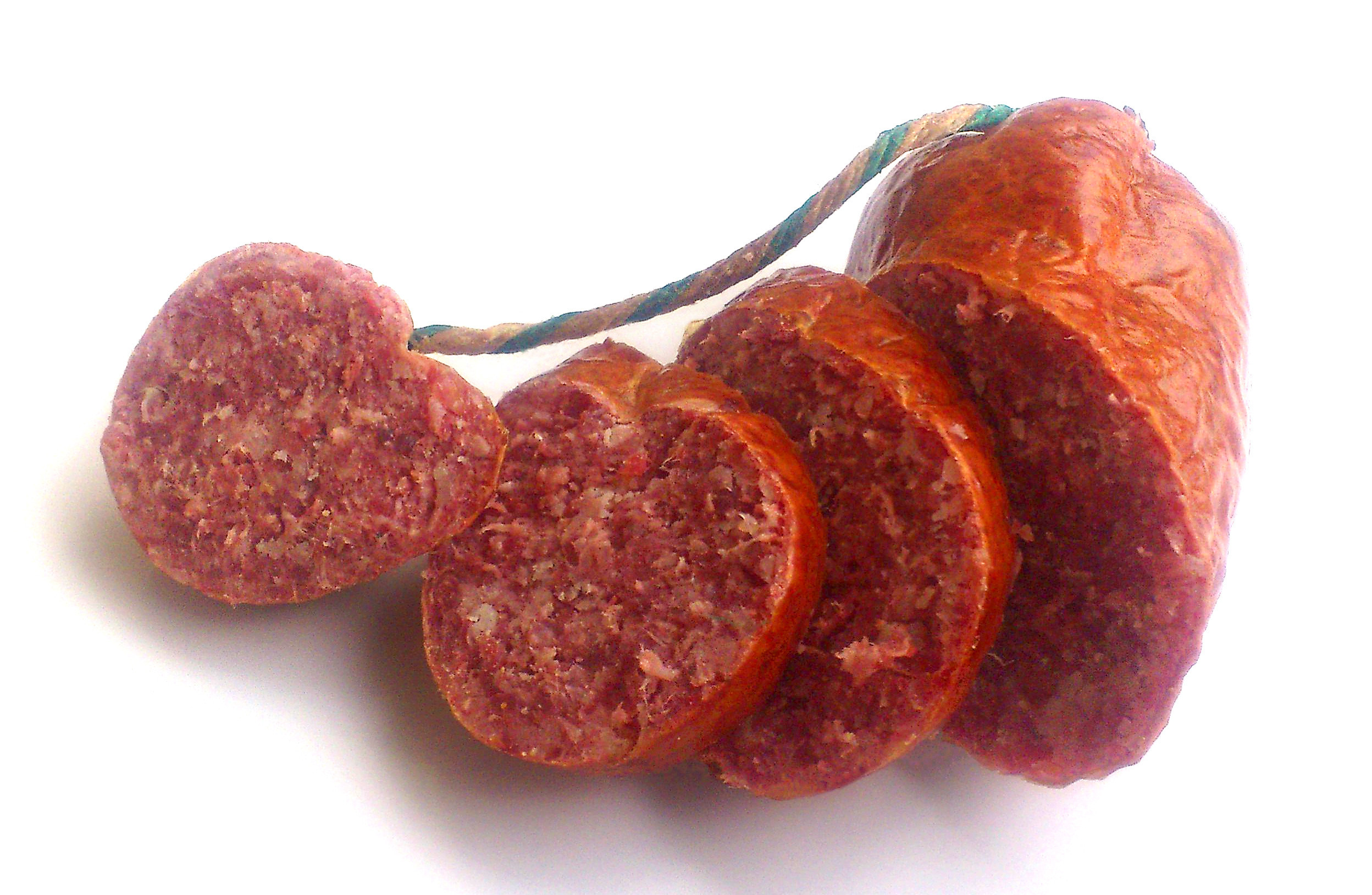 Beef sujuk, Central Asian style, purchased at Mix Markt, a "Russian" shop in Germany.